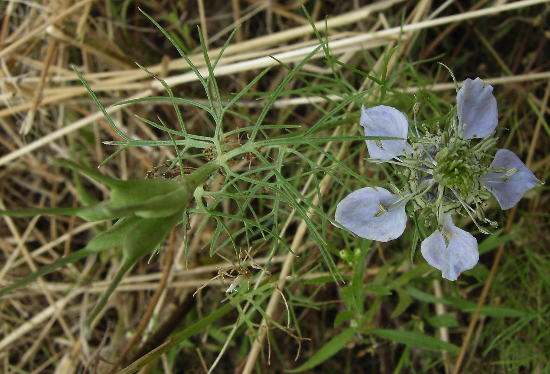 by Stefan Goen, made in the Randowtal, Uckermarck (Germany), 06/2004